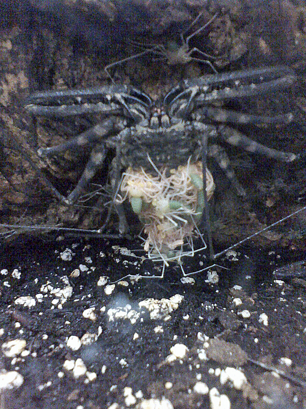 Female tailless whip scorpion (Damon diadema) carrying young. Cornell University Arachnology Laboratory.